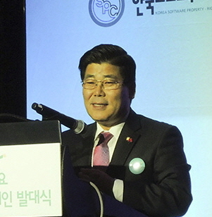 새누리당 이이재 국회의원